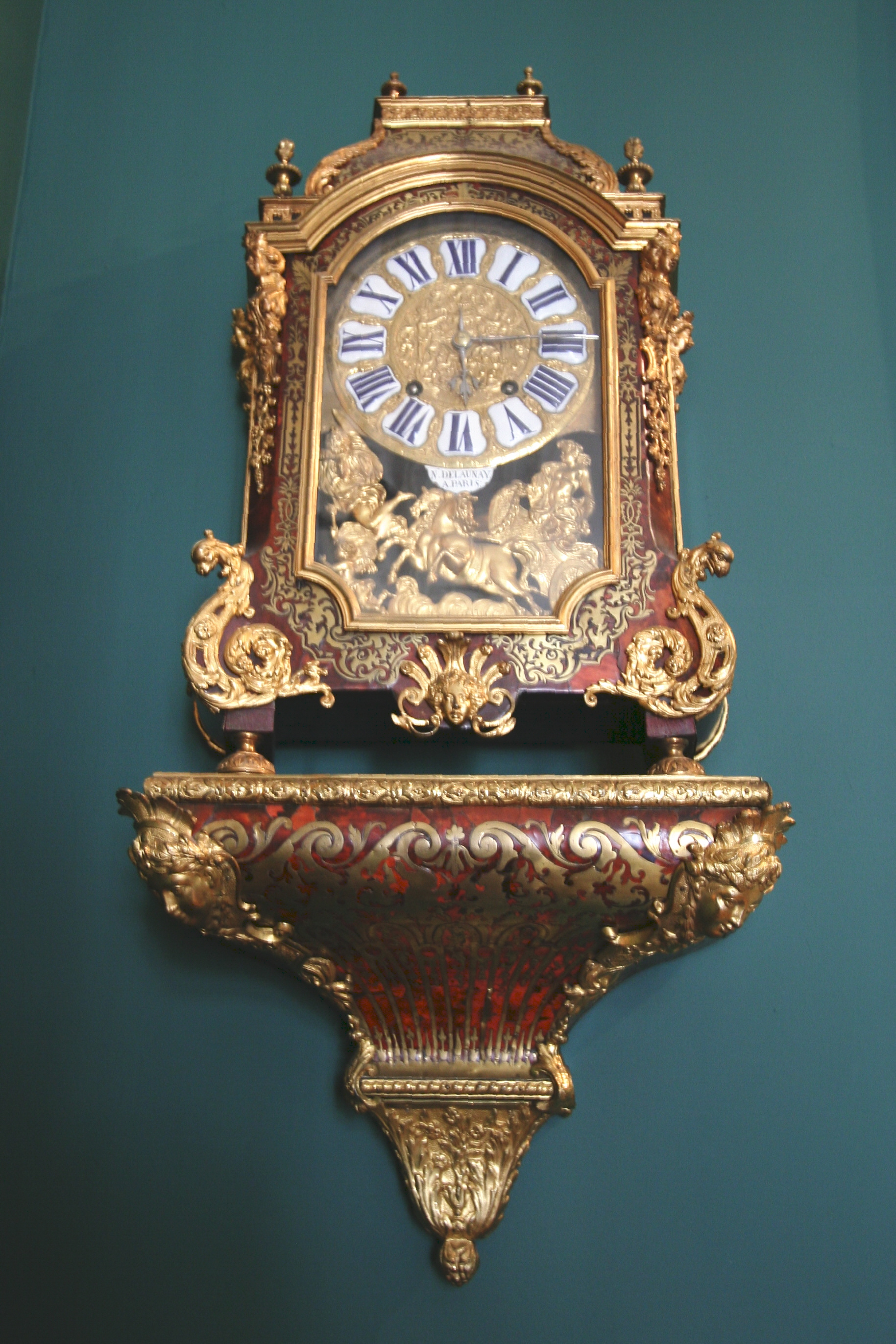 Cartel clock made by Nicolas Delaunay, master watchmaker in Paris. Period of the eighteenth century to 1735. Case and bracket with tortoiseshell and brass marquetry. Musee Grobet-Labadie in Marseille.